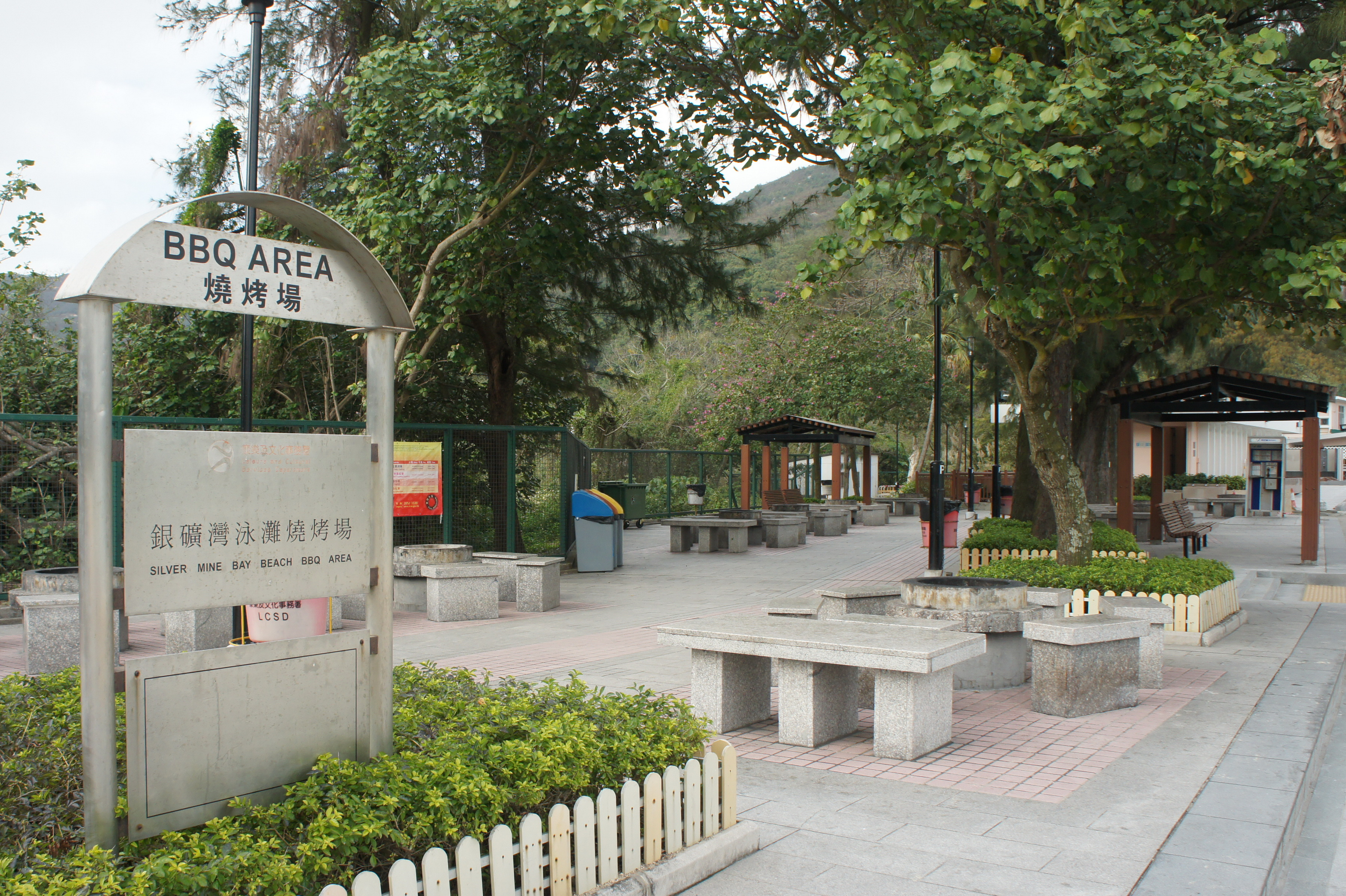 BBQ Area of the Silver Mine Bay Beach, Mui Wo, Hong Kong.